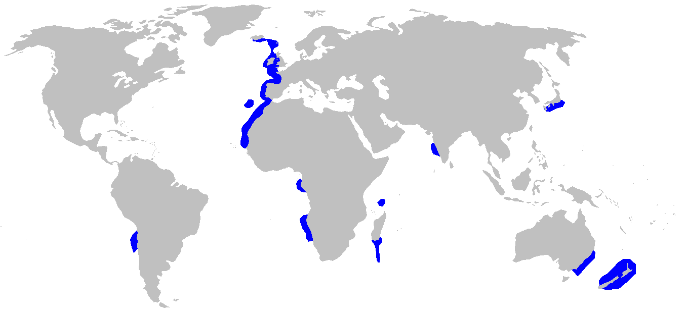 Distribution map for Centroselachus crepidater